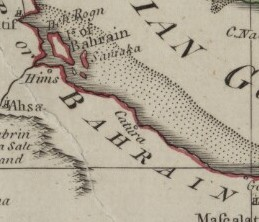 A map, “Arabia According to Its Modern Divisions”, made by Samuel Dunn in 1794 which shows the Arabian Peninsula, the Persian Gulf and Iran.